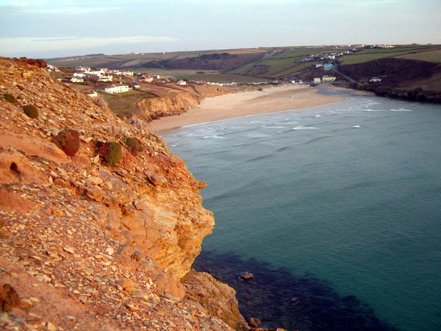 took by me